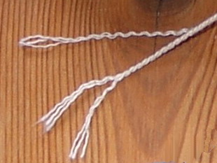 Multiple thread